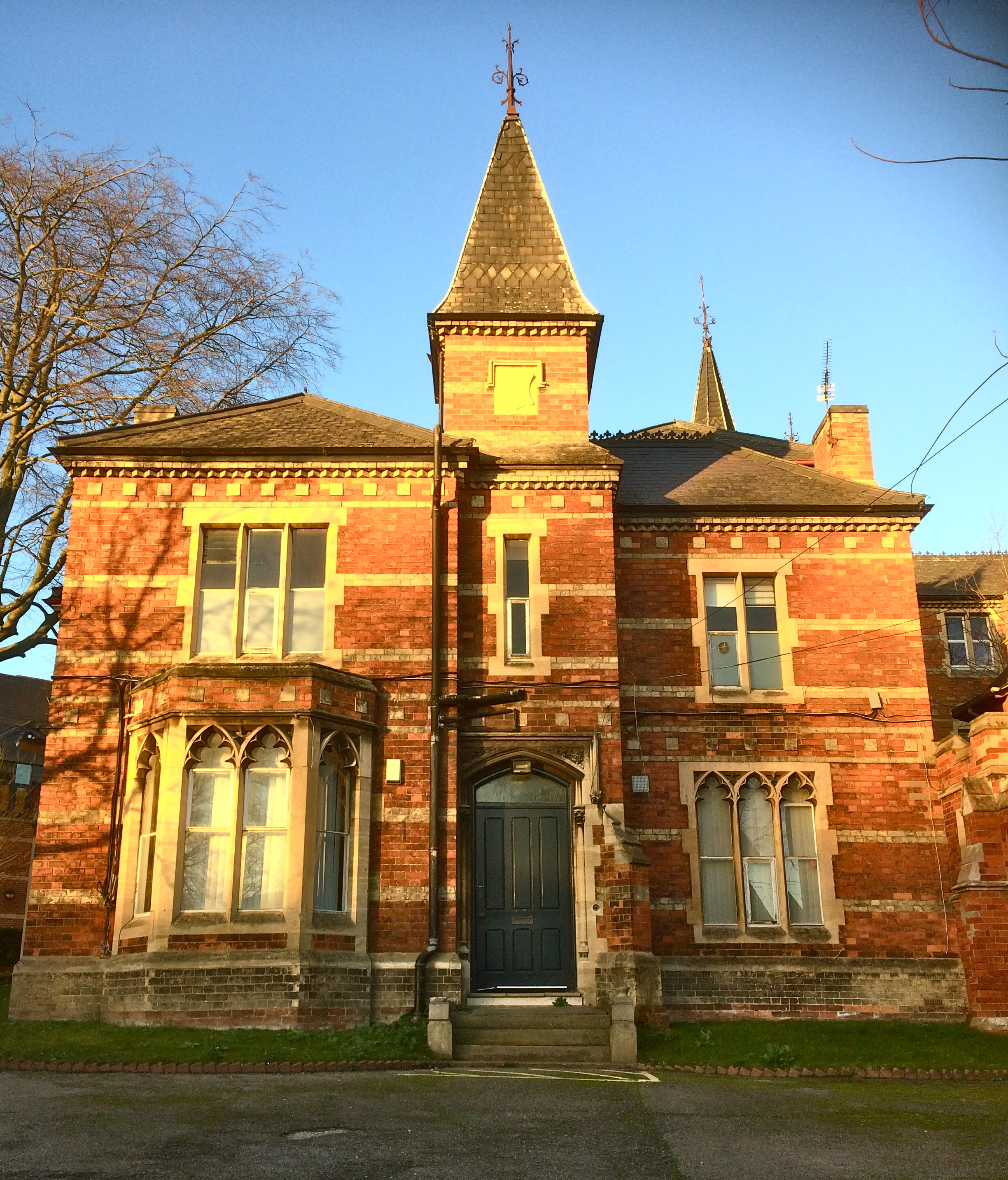 Old Lincoln Grammar School, Upper Lindum Terrace, Lincoln. 1861. Very probably designed by Pearson Bellamy of Lincoln.